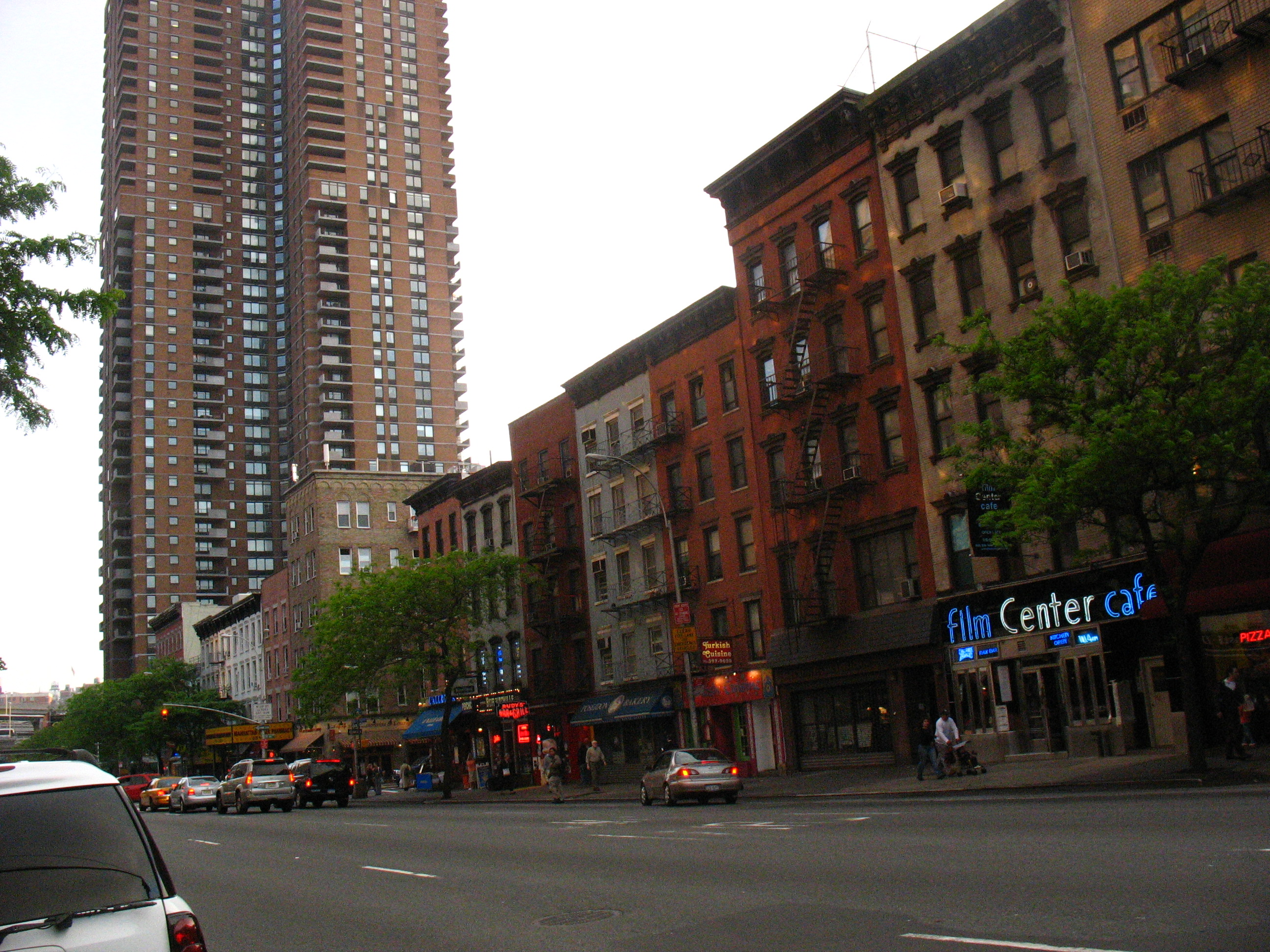 Manhattan Plaza performing arts residence and Film Center Cafe on Ninth Avenue